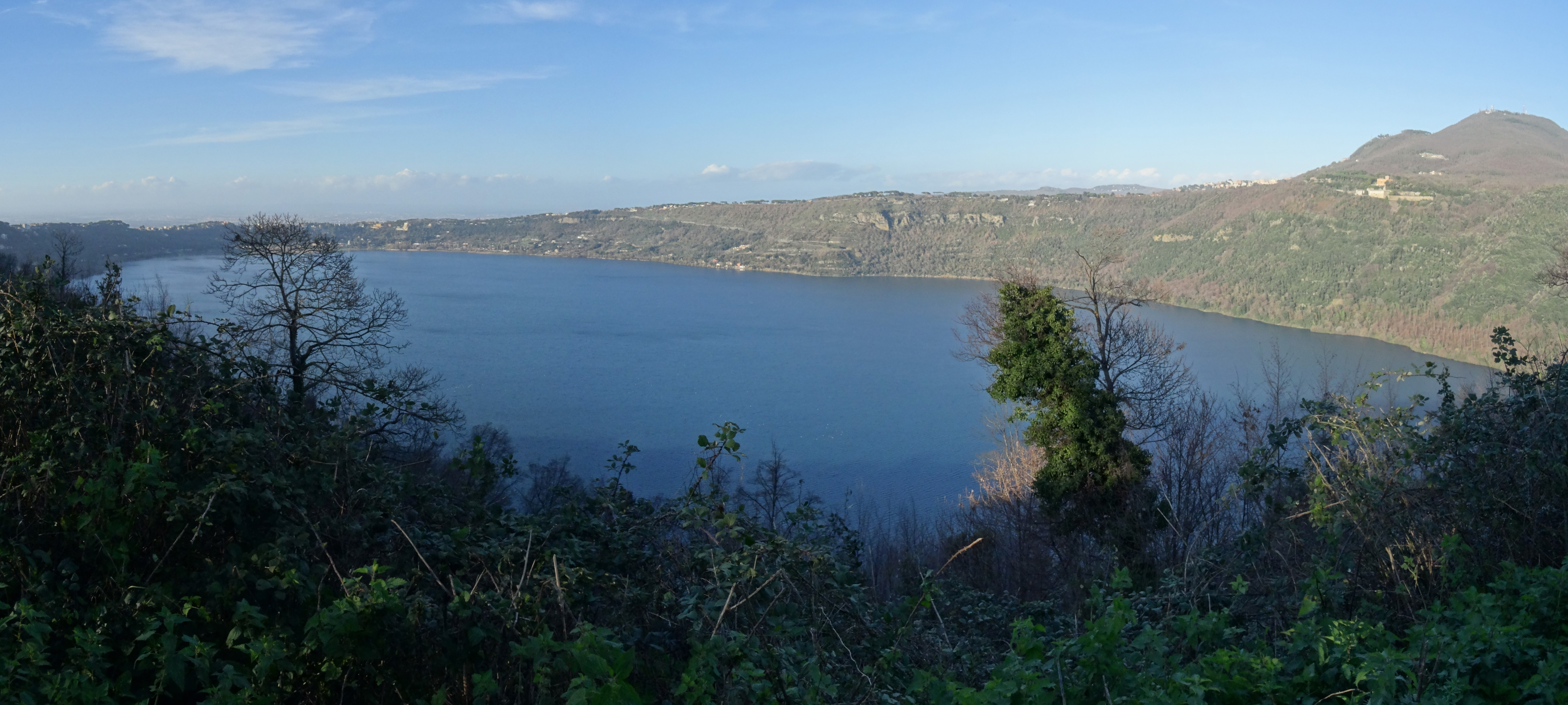 Panoramica Lago Albano